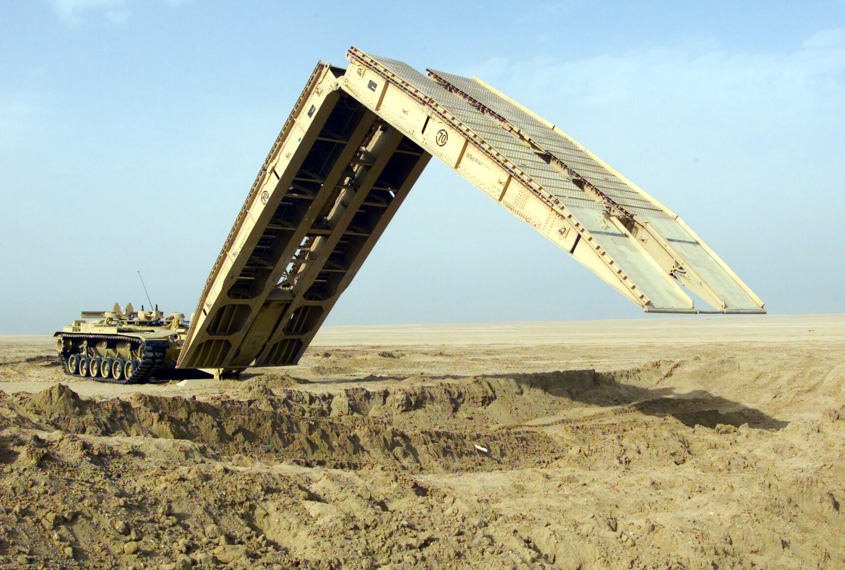 M60A1 Armored Vehicle Landing Bridge; Camp Coyote, Kuwait; An M60A1 Armored Vehicle Landing Bridge (AVLB) practices the deployment of its 60 foot bridge span, designed to quickly move heavy military wheeled and tracked vehicles over unstable or hazardous terrain. The equipment is being used in exercises being conducted as part of Operation Enduring Freedom. U.S. Marine Corps photo by Lance Cpl. Kevin Quihuis Jr.